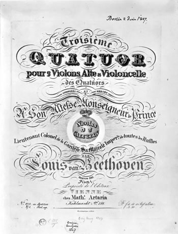 Coversheet of Beethoven's thirteenth string quartet as published in Berlin on June 2nd, 1827 (originally in french)